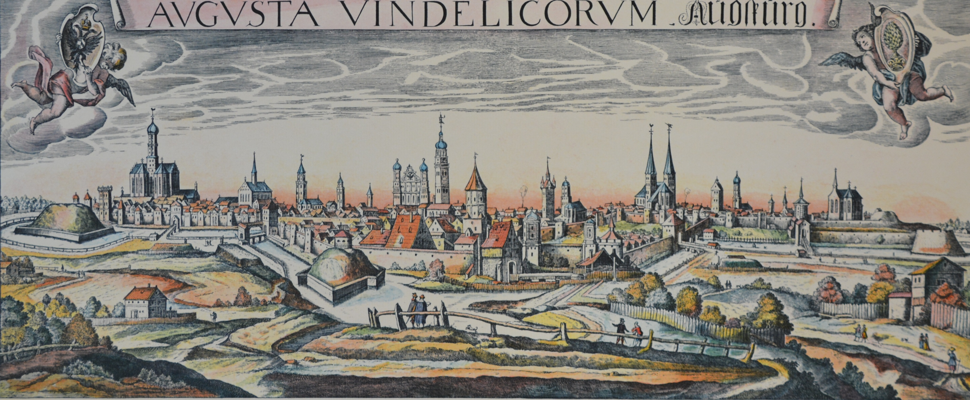 Augsburg 1585 by R. Custodiis